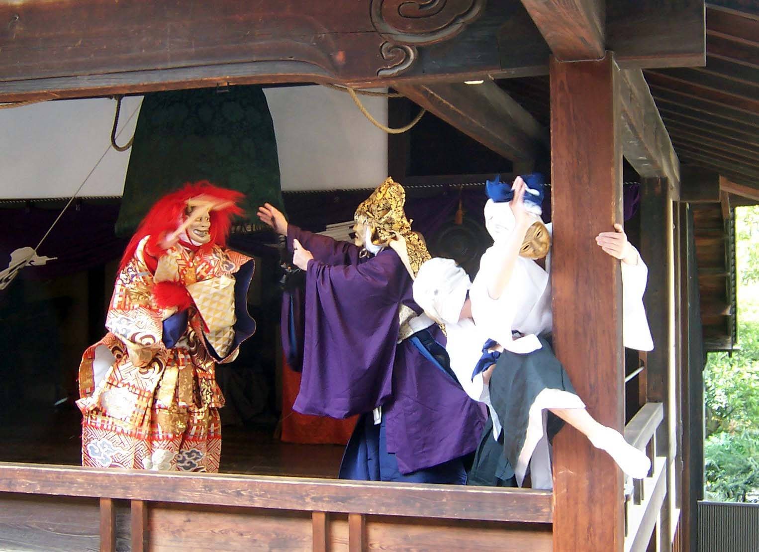 Kyōgen play at Mibu-dera, a buddhist temple in Kyoto, Japan. More detailed description at the source.